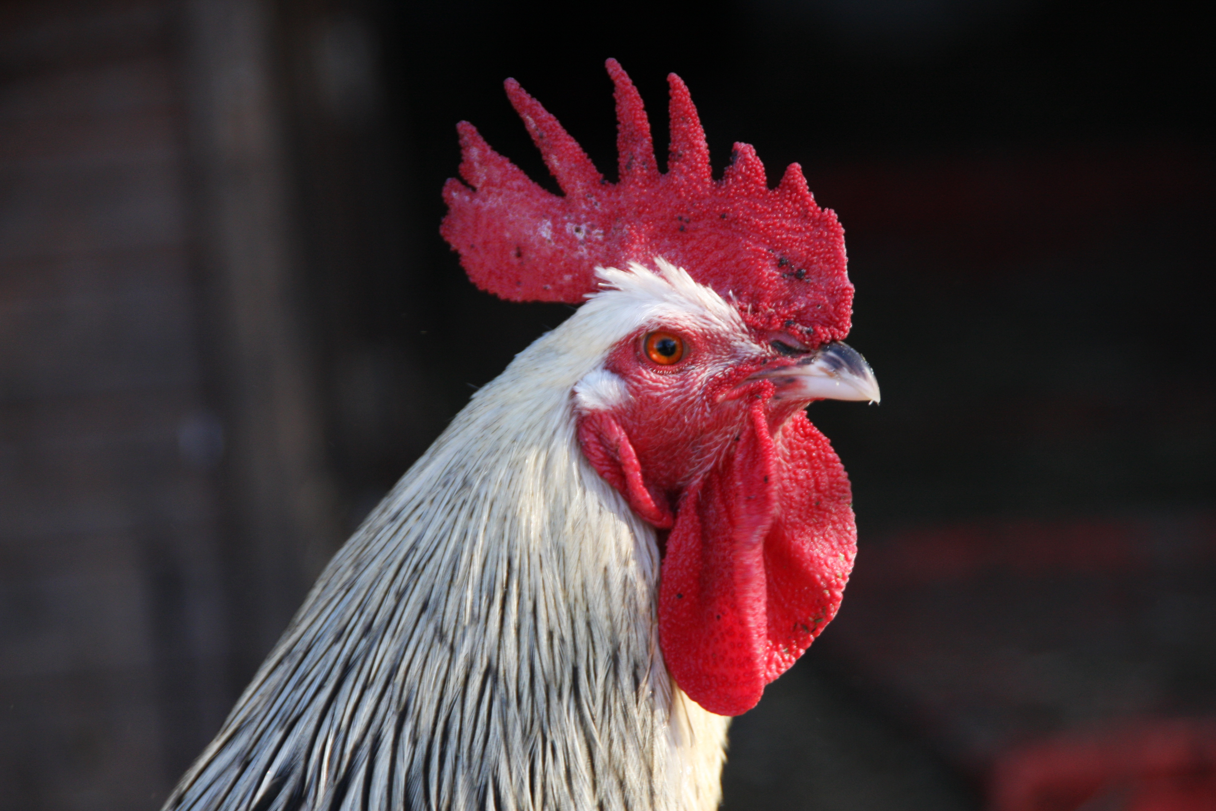 Rooster